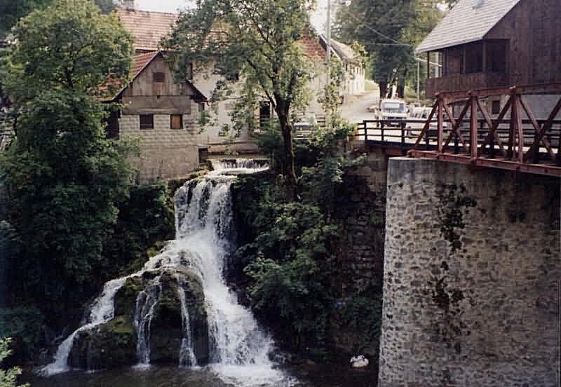 Rastoke, Slunj, Croatia. Uploaded by user Neoneo13 for Wikipedia.